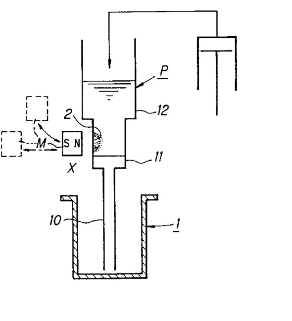 Tajima pipette, invented by Hideji Tajima (jp). Tajima pipet are key technology to instrumental Nucleic acid extraction.